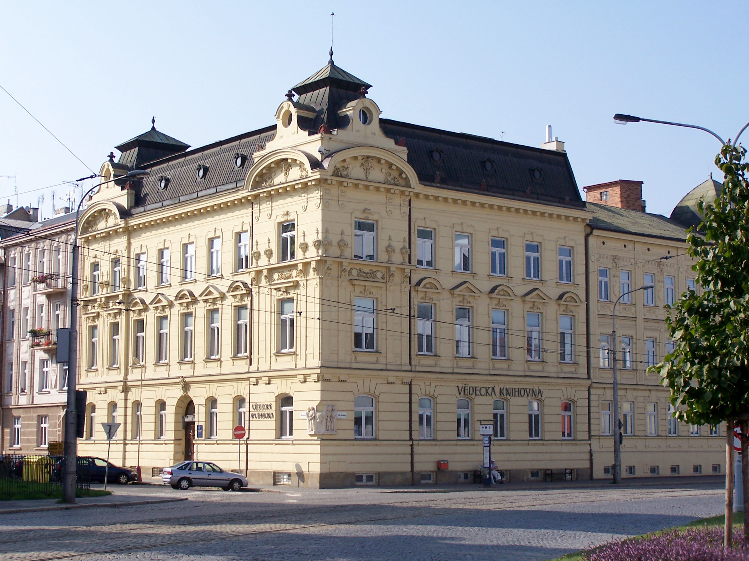 Scientific Library in Olomouc, Czech Republic